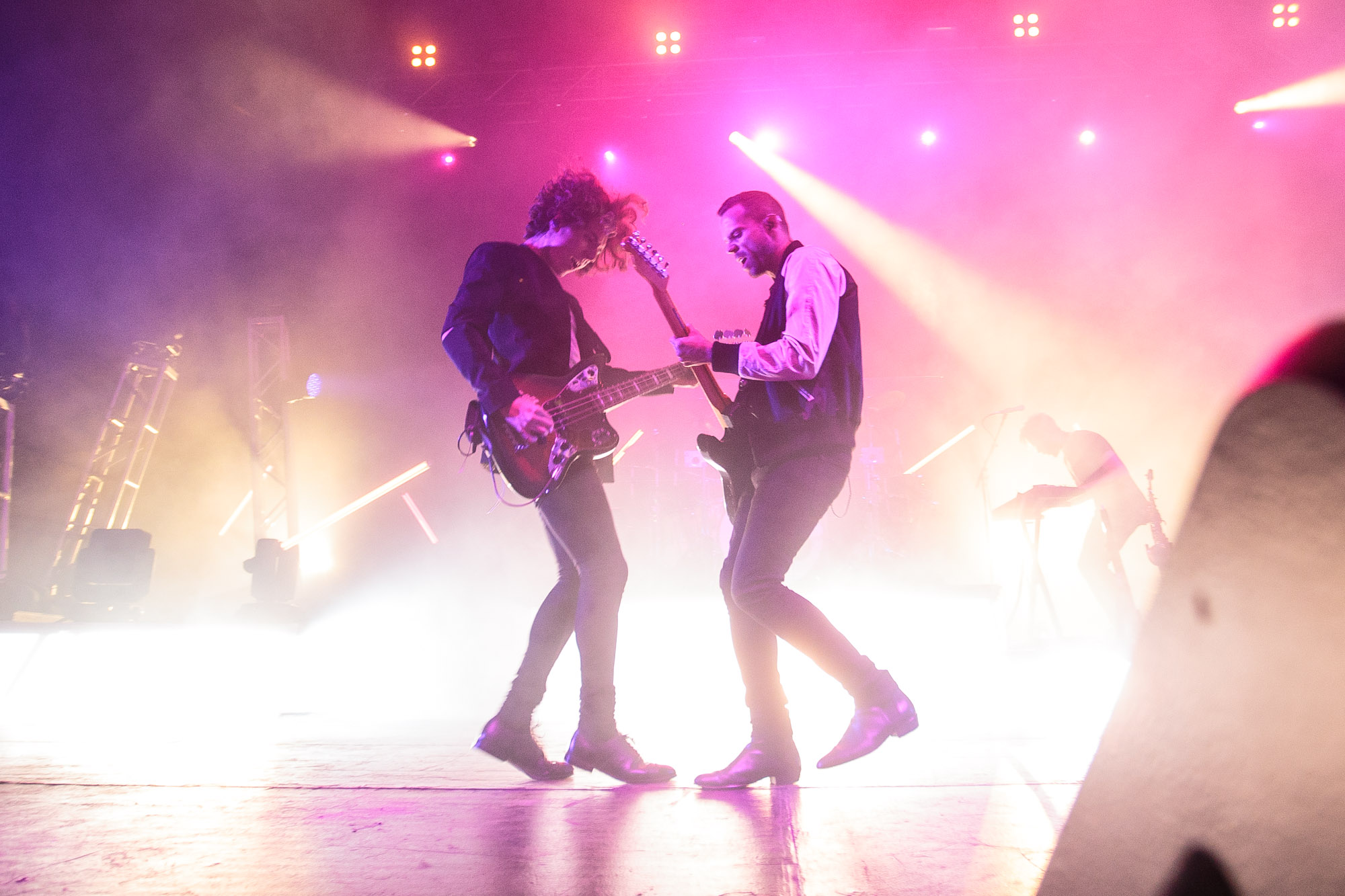 BOSTON, MA - July 21, 2016 - French electronic act M83 bring their tour in support of 2016's "Junk" to Boston's Blue Hills Bank Pavilion. Photo by Ben Stas.